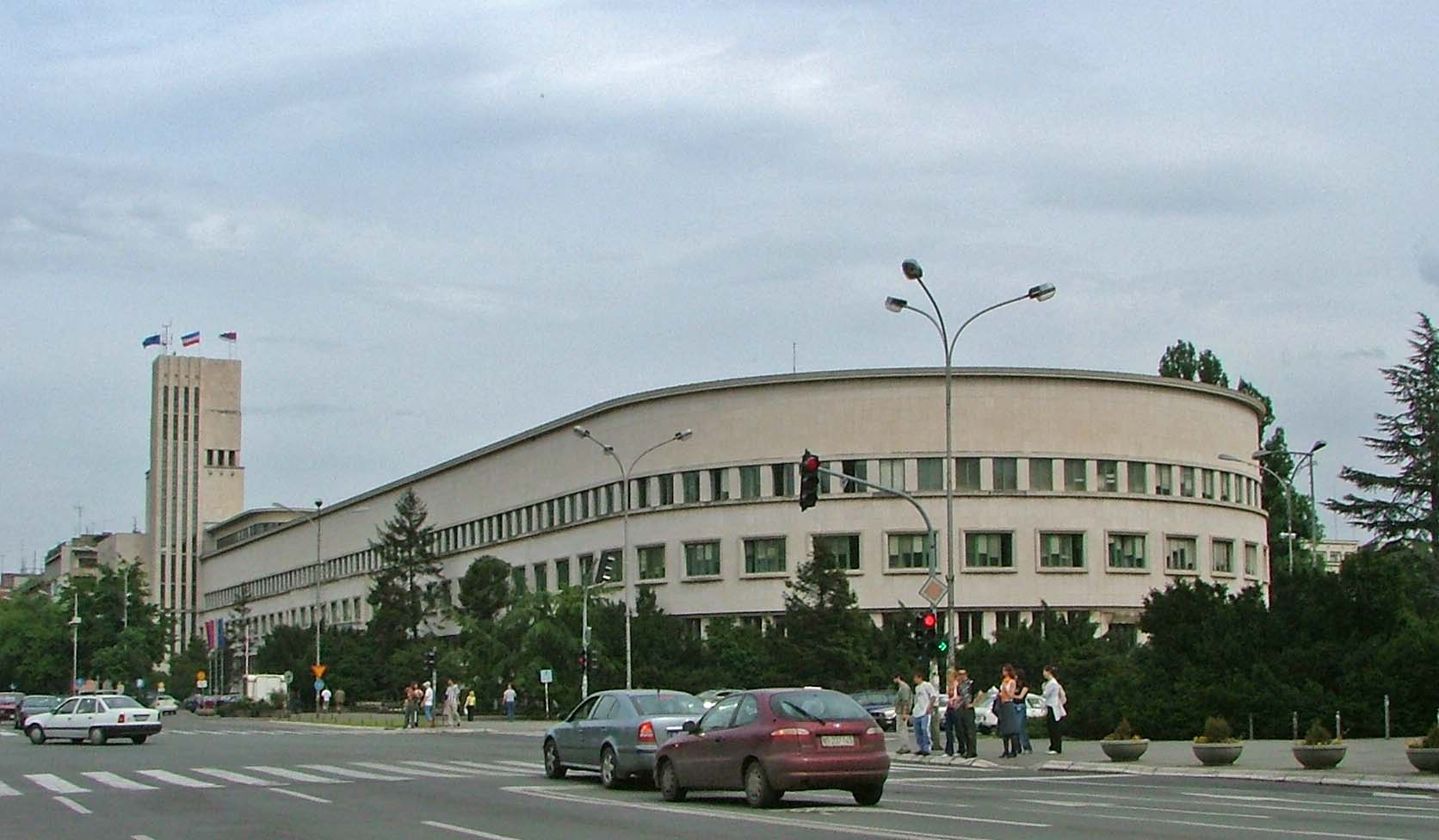 Banovina Palace in Novi Sad, Vojvodina, Serbia.